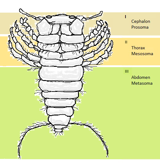 An imagenary crustancean, With its 3 body parts visibly coloured.